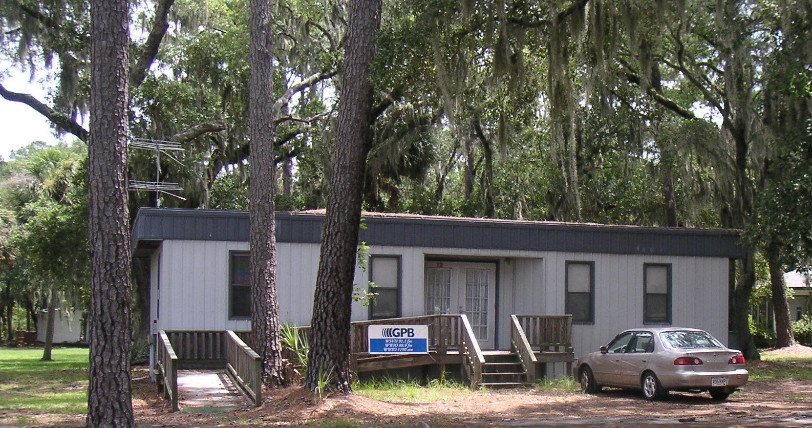 The trailer on the Skidaway Marine Science Campus, Skidaway Island, GA USA, from which WSVH broadcasts.